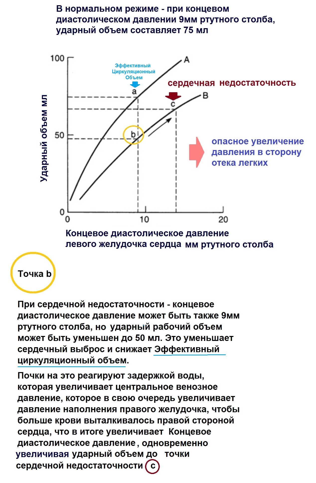 Effective circulating volume